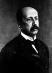 Former Prime Minister of Greece Charilaos Trikoupis (11 July 1832 (O.S.) – April 1896).